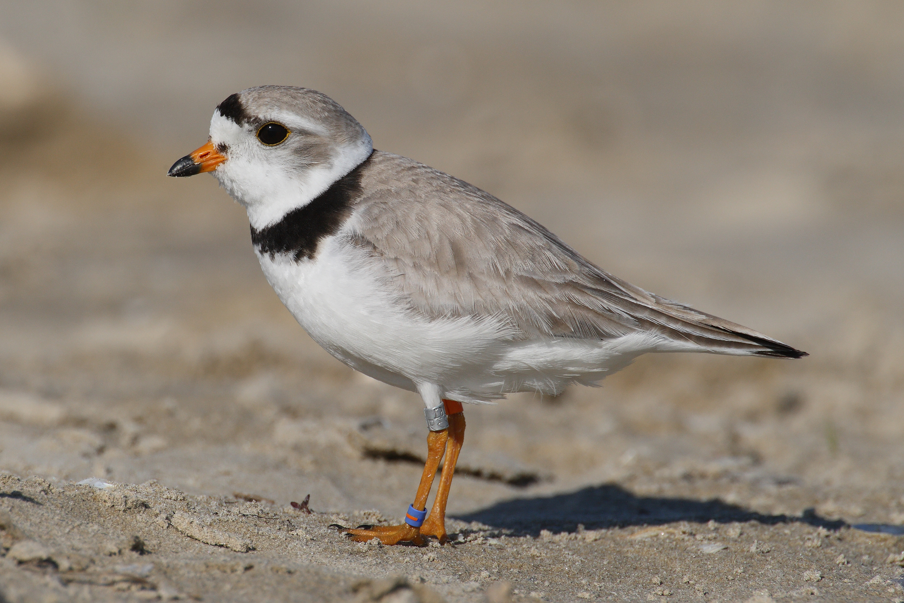 Piping Plover (Charadrius melodus) -- Sauble Beach, Ontario, Canada -- 2008 July. Note: this image has been left/right flipped for graphical presentation in Wikipedia species taxoboxes.